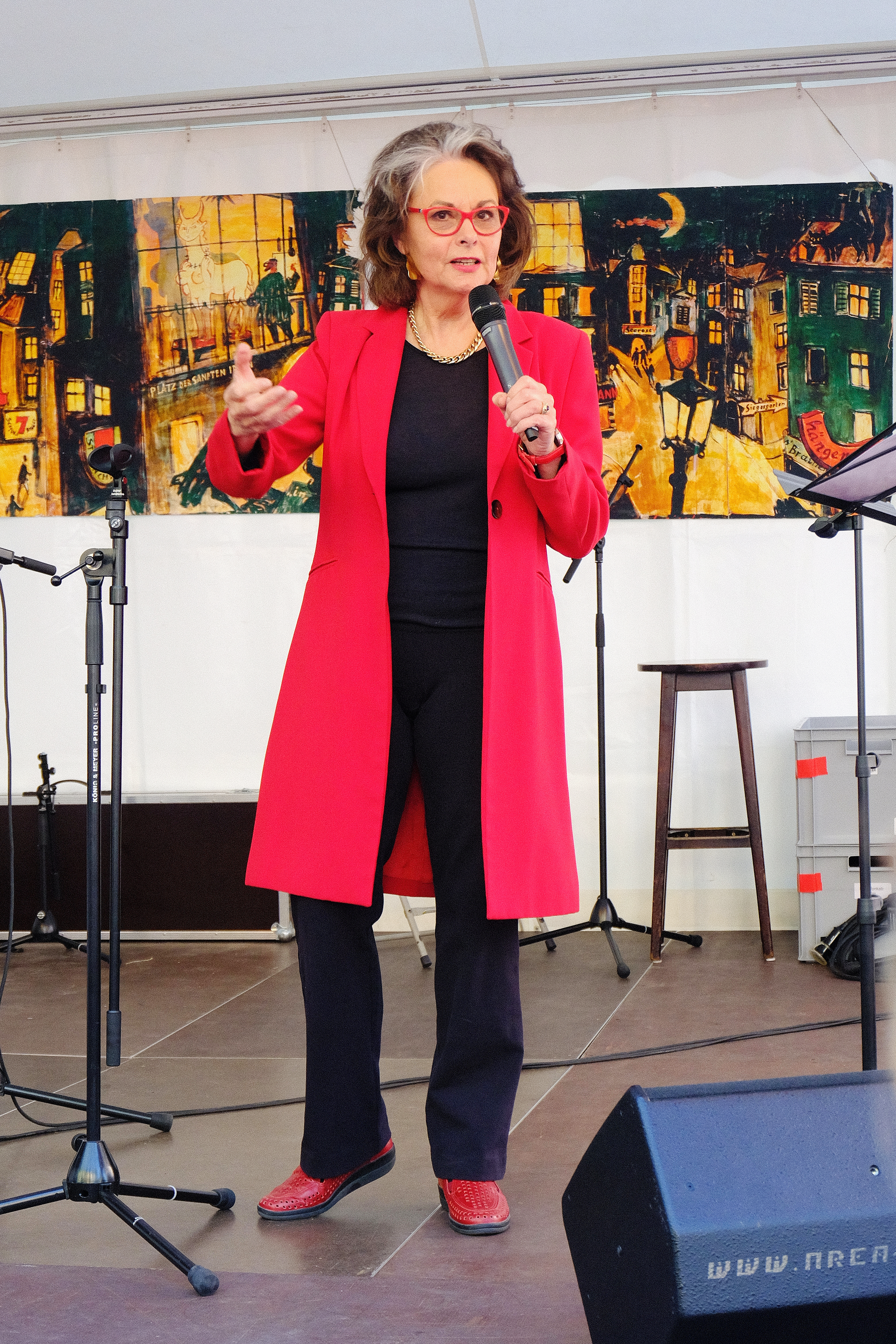 Jazz singer Jenny Evans on the “Corso Leopold”, Munich, May 2019